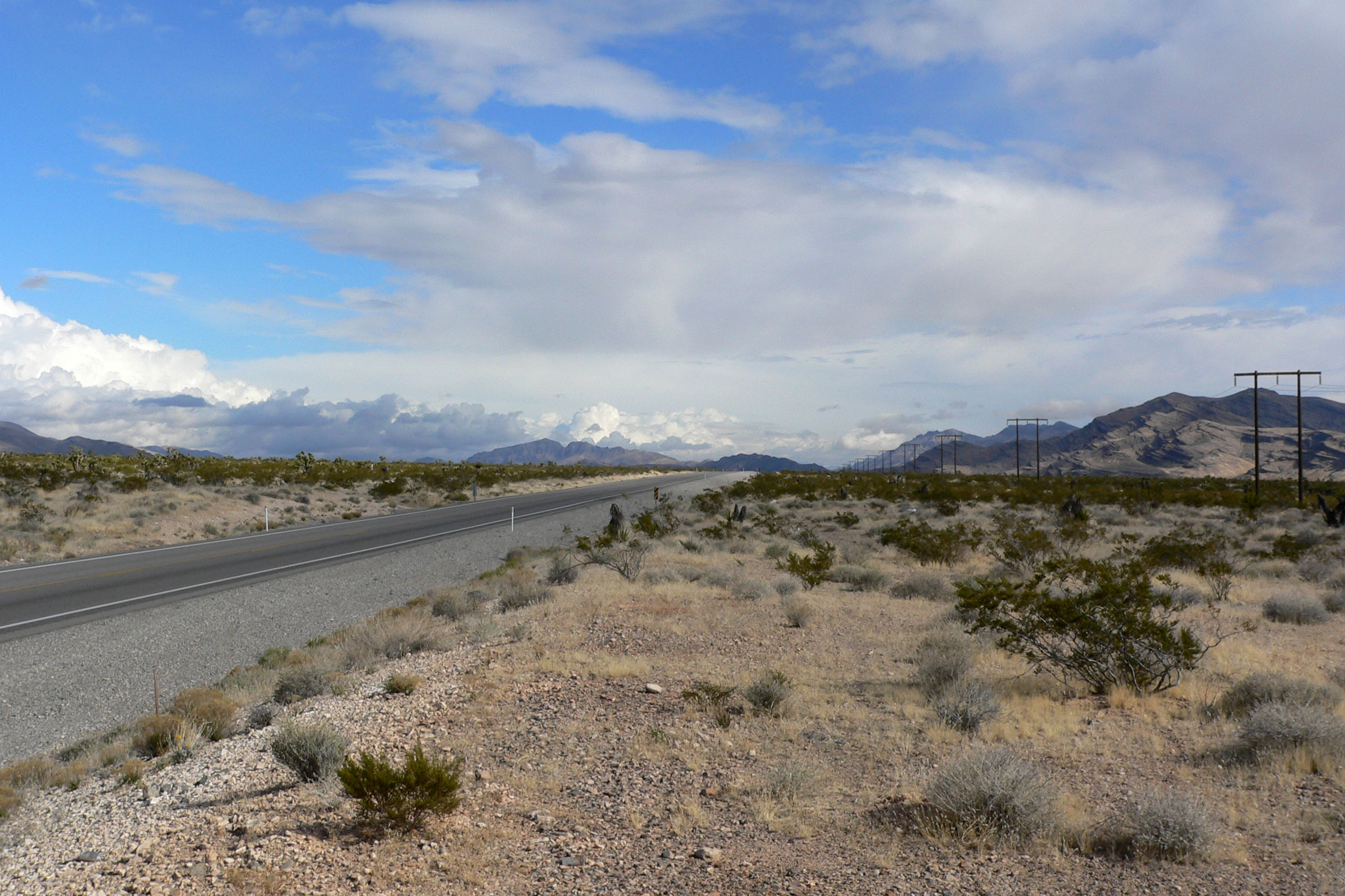 Great Basin Highway looking north from near its junction with Interstate 15, southern Nevada. The Arrow Canyon Range borders to the right of the highway.